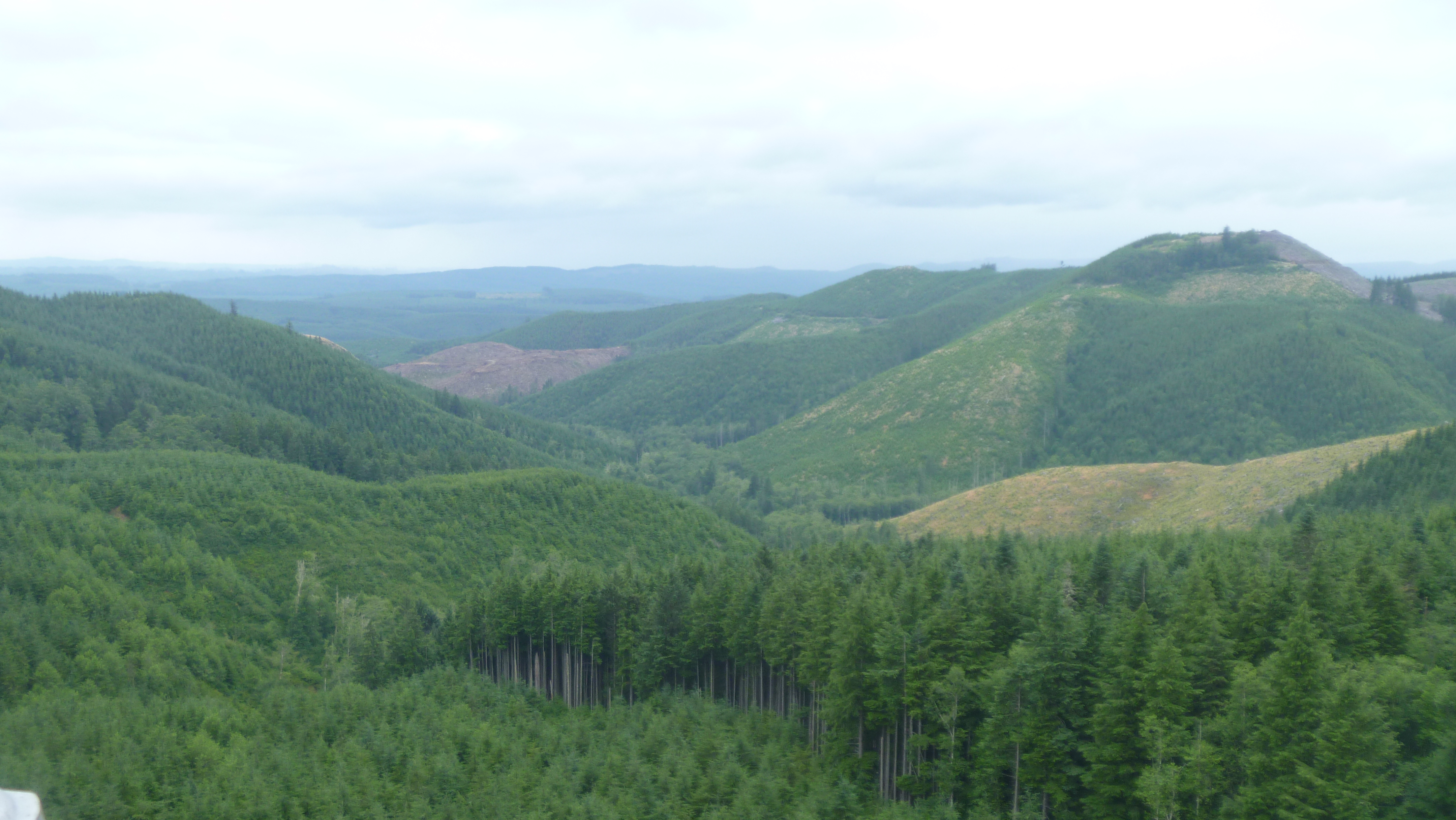 Typical landscape and coniferous forestry in the Doty Hills, showing the logging areas in different stages of regrowth.